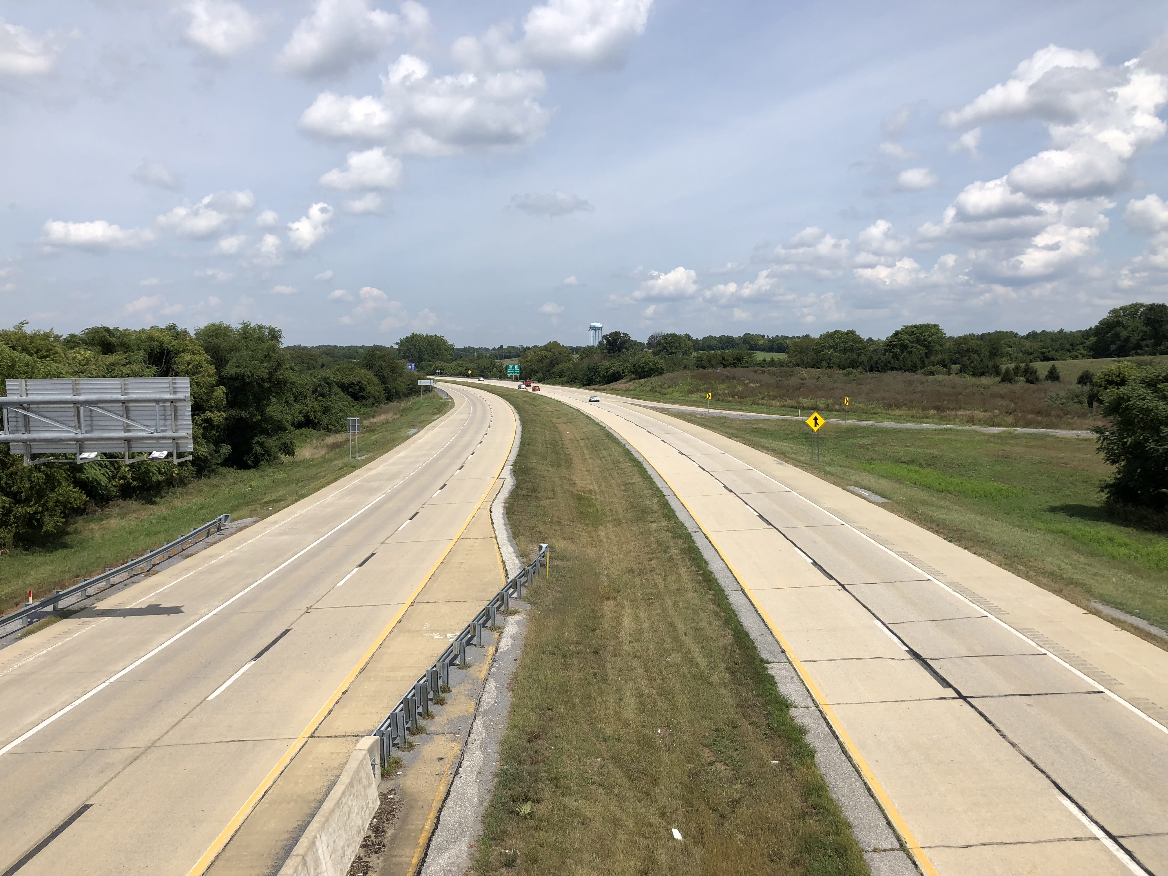 View north along U.S. Route 340 and west along West Virginia State Route 9 (Charles Town Bypass) from the overpass for West Virginia State Route 9 in Charles Town, Jefferson County, West Virginia